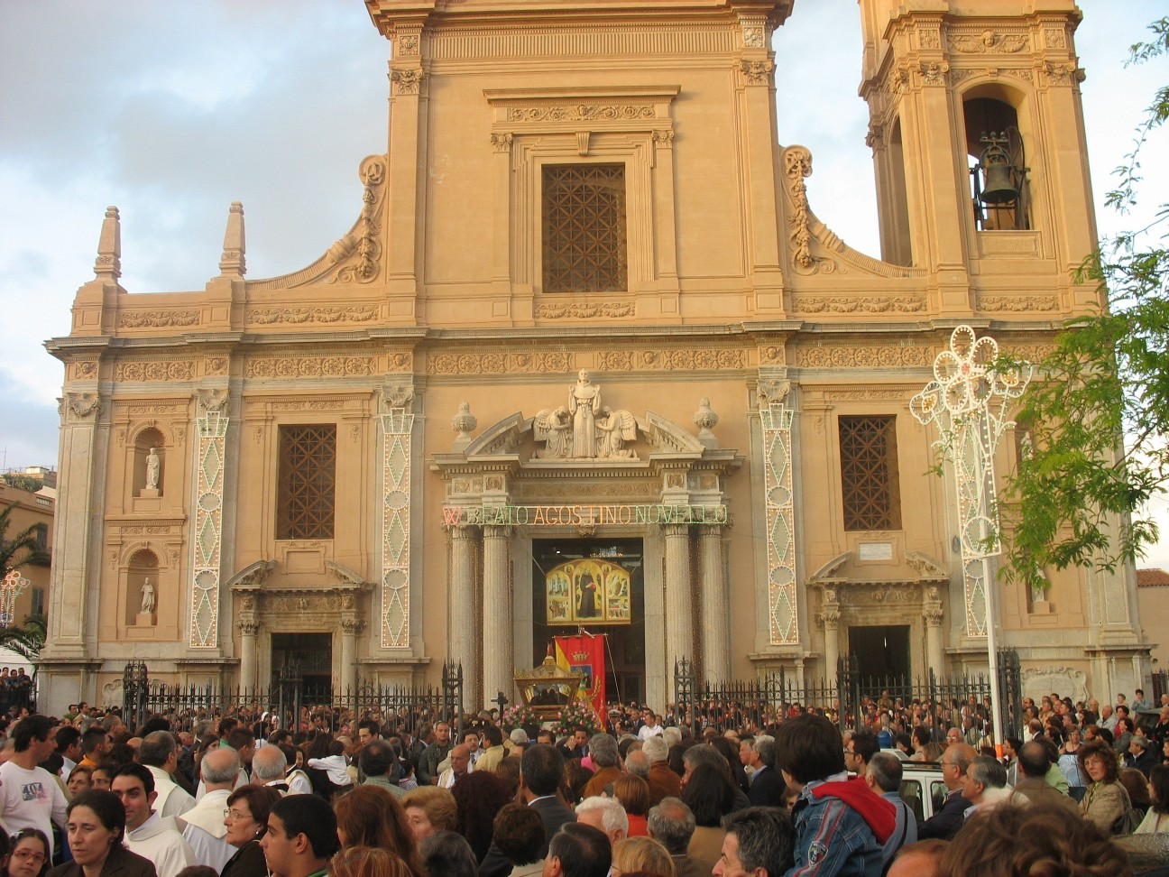 Procession in honuor of Blessed Agostino Novello at Termini Imerese